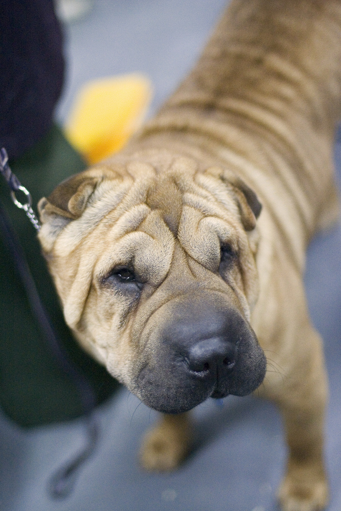 A Shar Pei at the 2007 Westminster Kennel Club Dog Show.